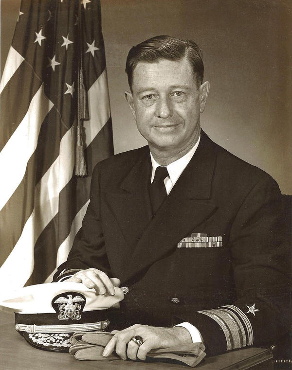 Rear Admiral Levering Smith